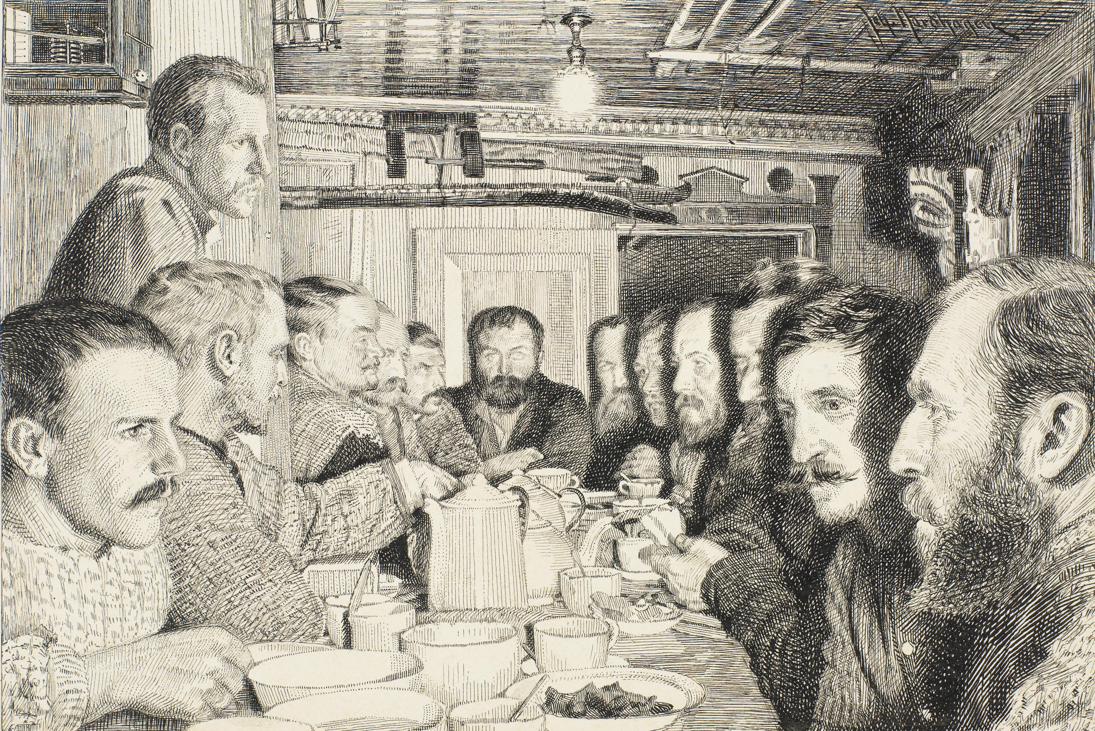 Pen and ink drawing from about 1896. The crew at the suppertable, on board the «Fram». From a photo (q3c068).